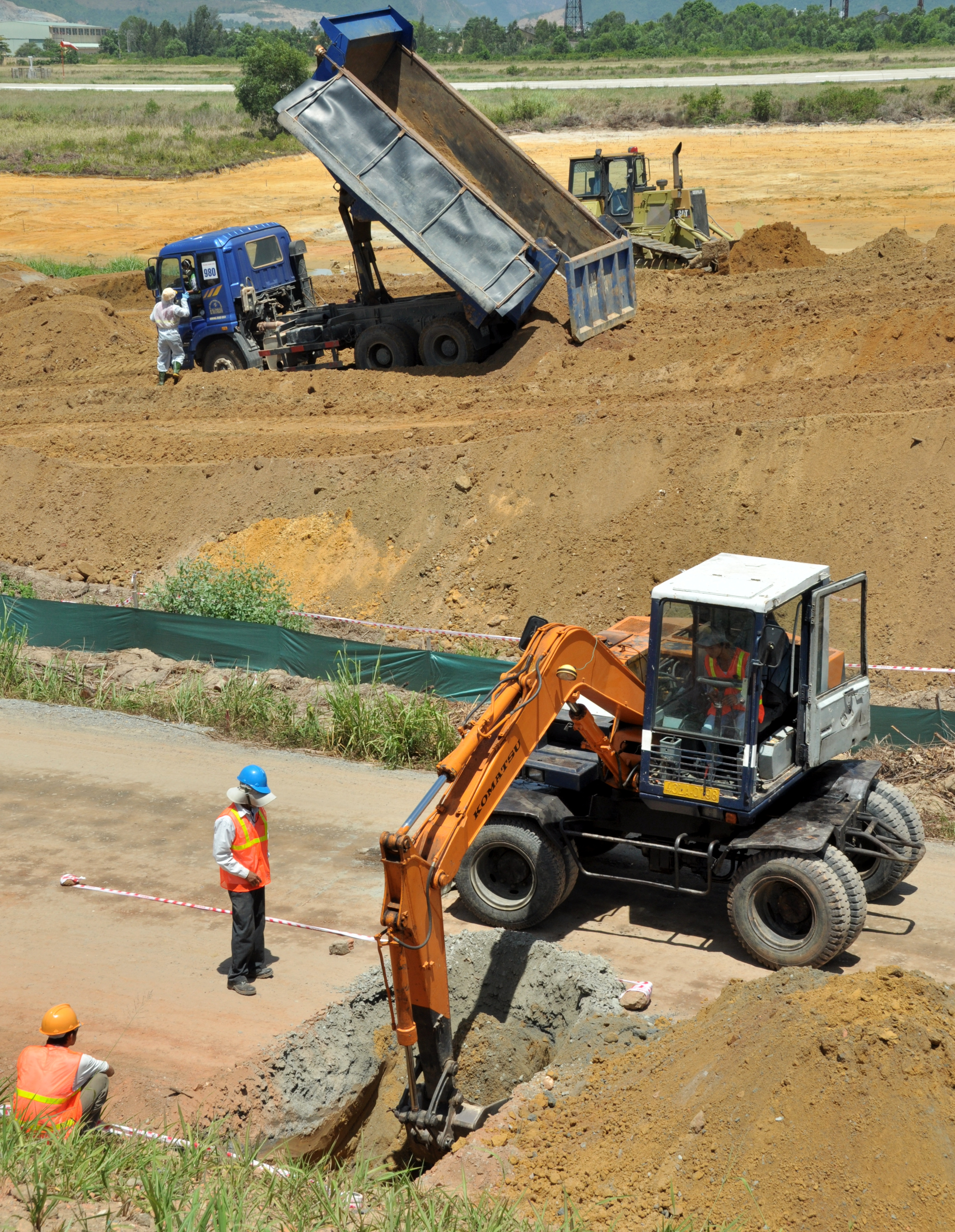 Progress at the Remediation of Dioxin Contamination Project Site Danang, Vietnam, June 5, 2013 Photo: Richard Nyberg, USAID